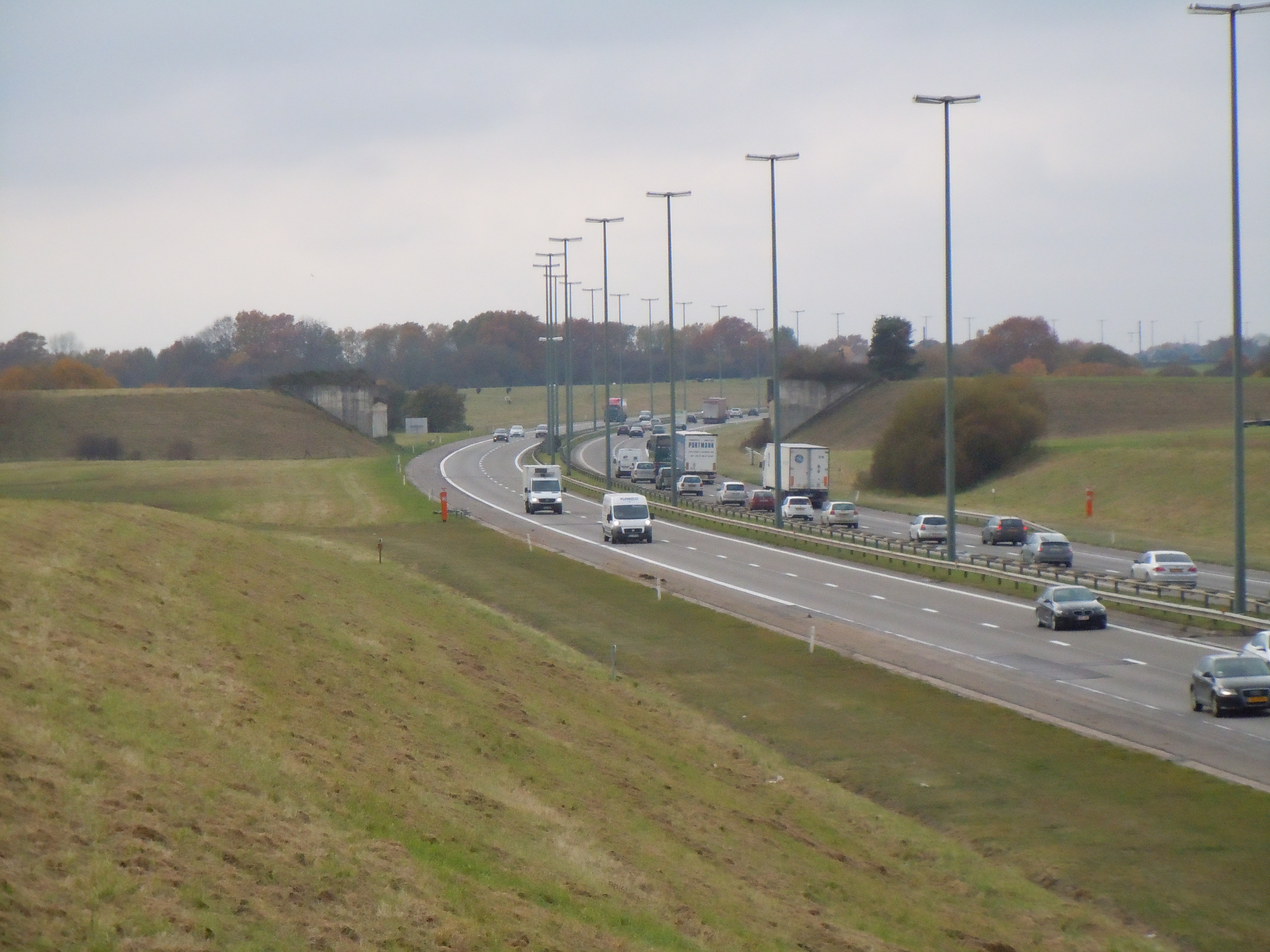 Unfinished bridge on the A4 motorway near Arlon, Belgium.